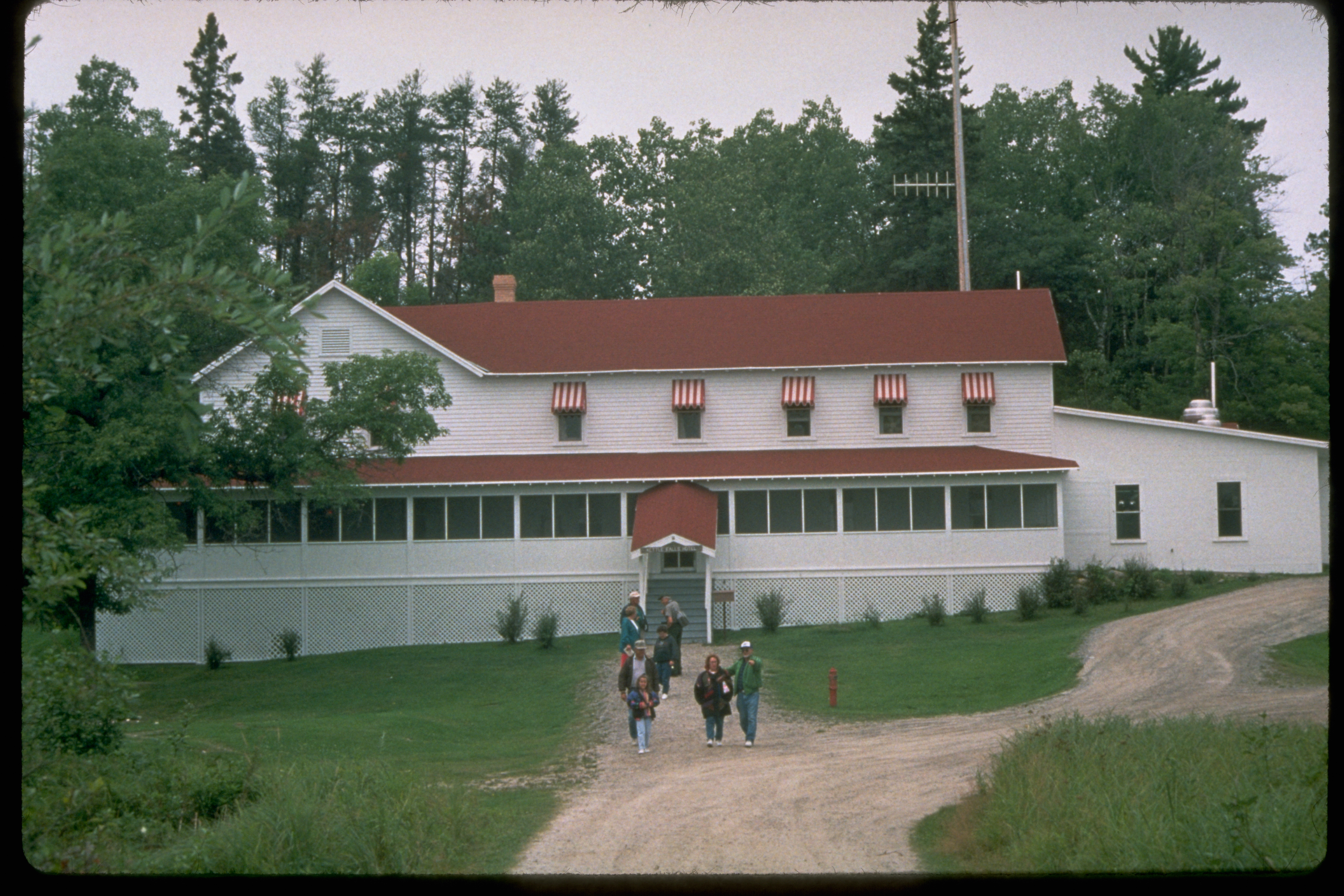 Nearly 200 years ago voyageurs paddled birch bark canoes full of animal pelts and trade goods through this area on their way to Lake Athabaska, Canada. Today, people explore the park by houseboat, motorboat, canoe and kayak. Voyageurs is a water-based park where you must leave your car and take to the water to fully experience the lakes, islands and shorelines of the park.